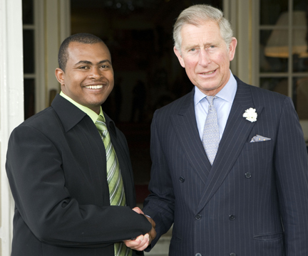 Milkyas Debebe, Executive Director of the Ethiopian NGO, Gaia Association, meets Prince Charles, patron of the Ashden Awards.